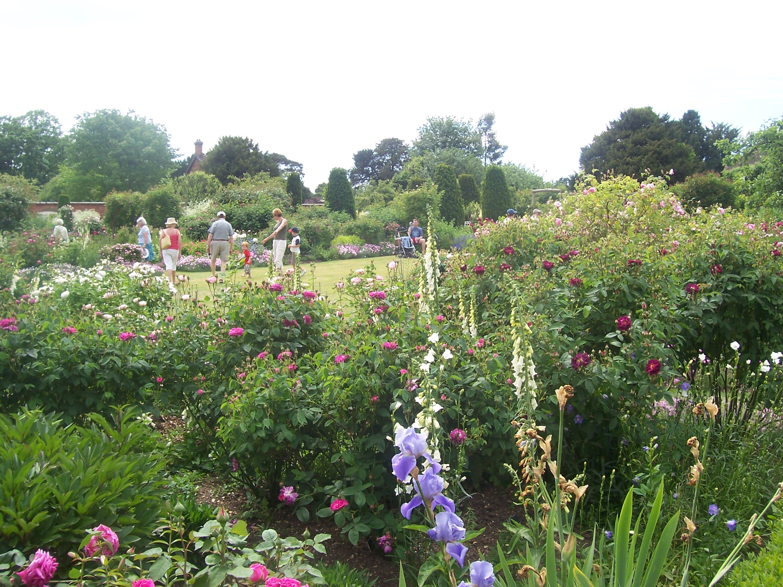 Mottisfont Rose Garden, Hampshire, UK